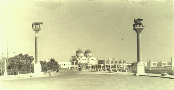 Victory st. in Benghazi, Libya, (1941).